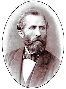 Anton de Bary (image taken before 1888)